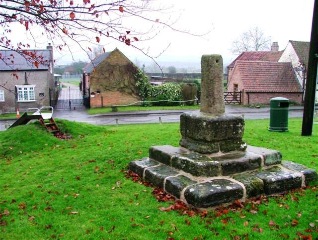 Village Green and Cross, Upper Broughton. My "Arthur Mee" (Published 1946) refers to the village as Broughton Sulney and says of the cross: "the pillar of an cross said to have been placed there as a thankoffering because the Black Death passed the people by."